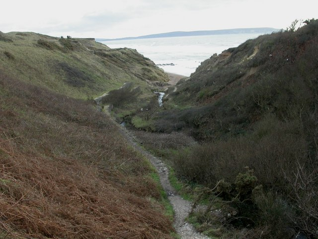 Beckton Bunny To the left, footpath to the beach, to the right, stream; Isle of Wight in the distance. Bunny is the local name for a shallow valley leading to the sea; "chine" further West.